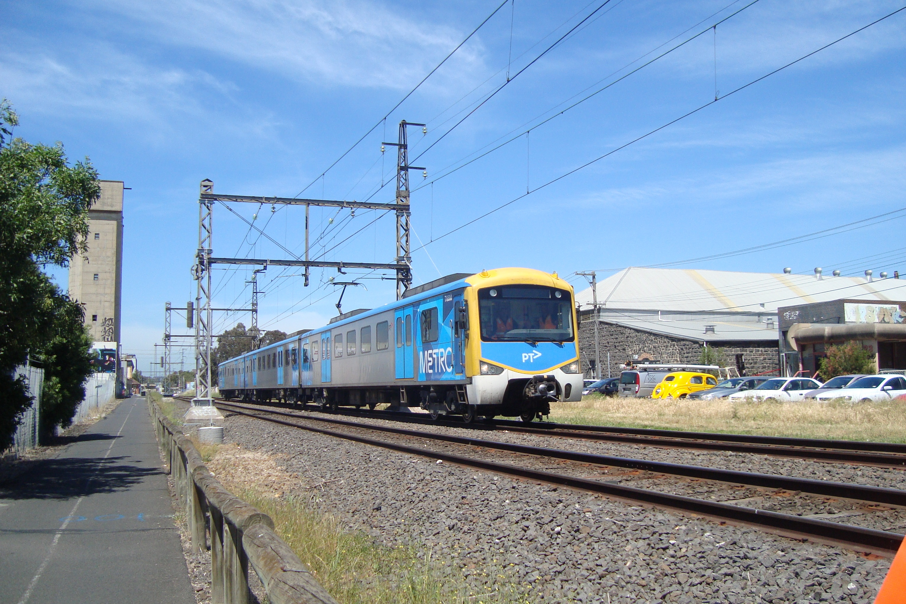 Upfield train past the silo. View south along the Upfield Shared bike pathway looking towards Tinning Street